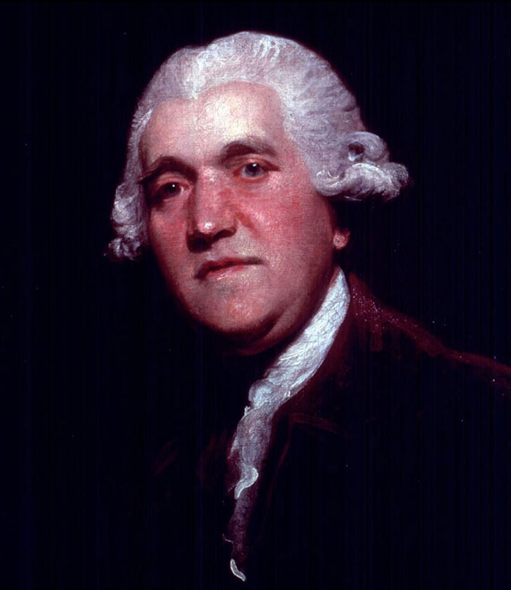 Portrait of Josiah Wedgwood (1730-1795), English businessman and early industrial producer of pottery